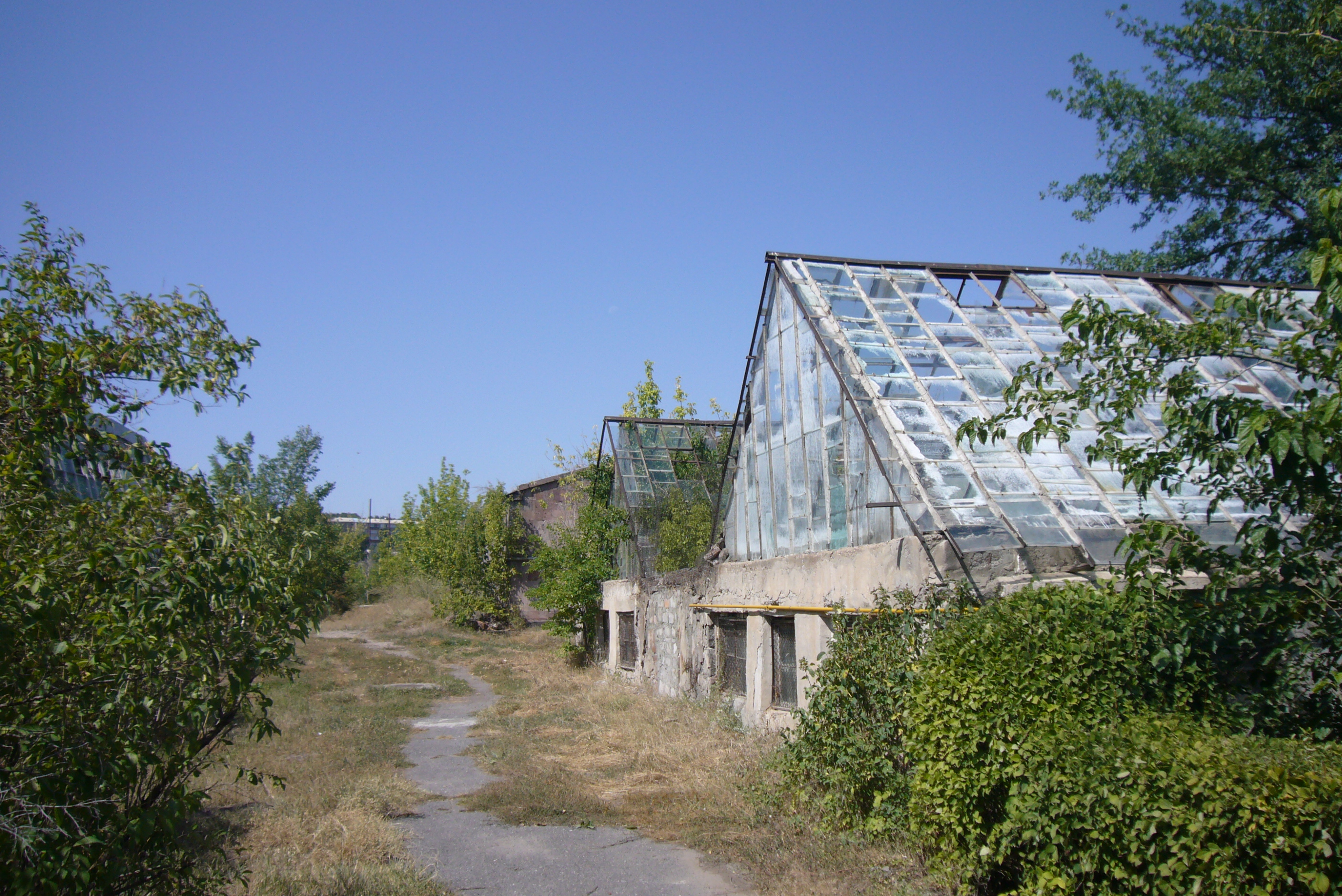 Greenhouse in the Botanical Garden Yerevan